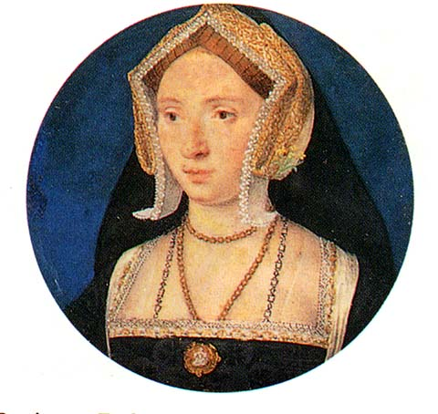 A miniature of Mary Boleyn[1][2] (about age 25), attributed to Lucas Horenbout, in the Collection of the Duke of Buccleuch and Queensbury